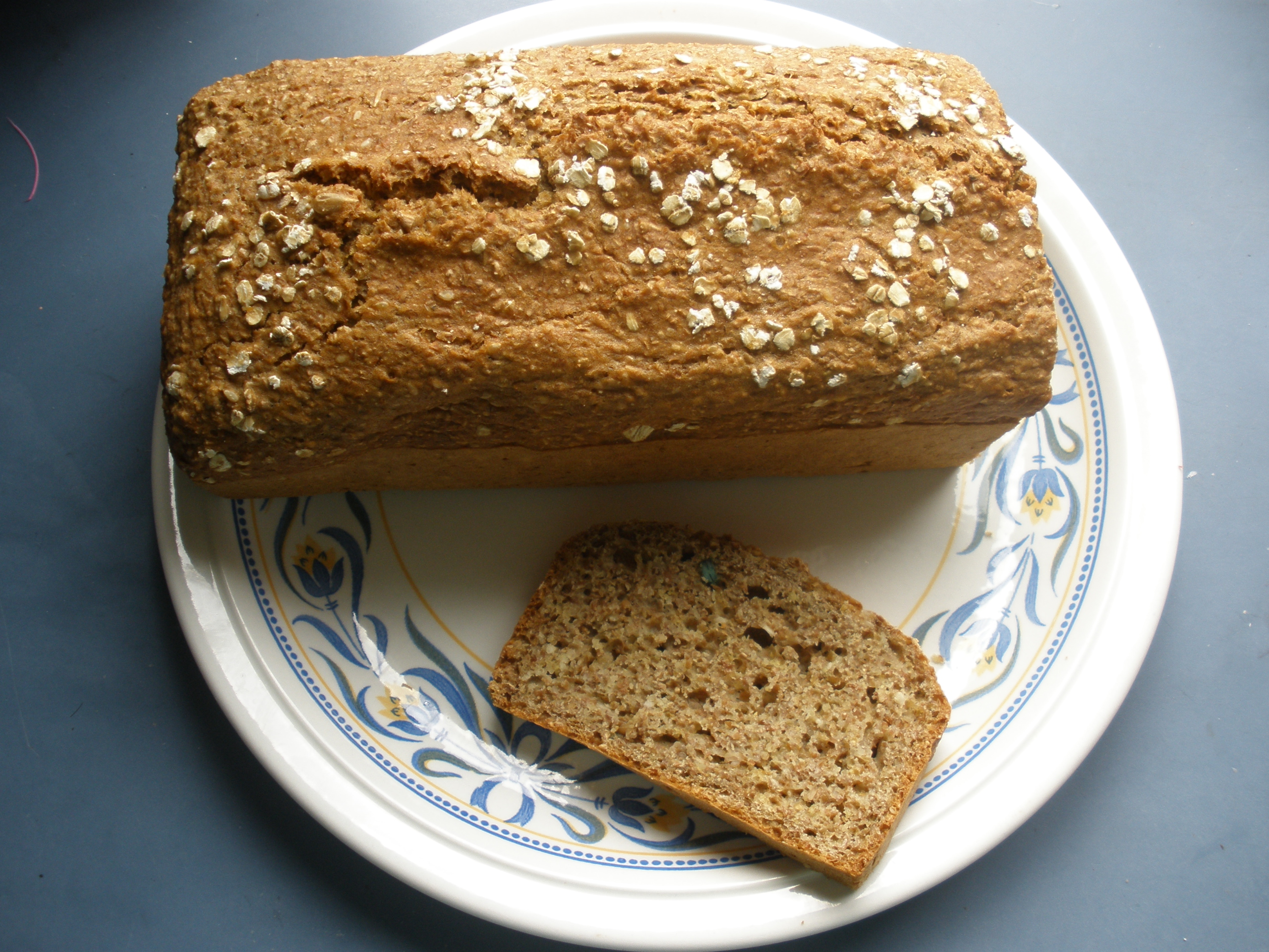 Home-made Irish brown soda bread. The basic ingredients were white flour, wholemeal flour, bread soda, a pinch of salt, buttermilk, and an egg. Optional ingredients included were a cup of 2:1 mix of wheatbran and wheatgerm, sunflower seeds, and sesame seeds. Chlorogenic acid in the sunflower seeds reacted with the alkaline baking soda, turning the seeds metallic green (one such seed is visible in the slice in the picture). A pinch of flakemeal was scattered on top of the dough before baking.